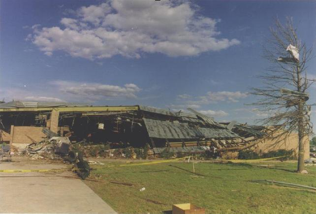 Damage left by an EF3 (Enhanced Fujita Scale level 3).